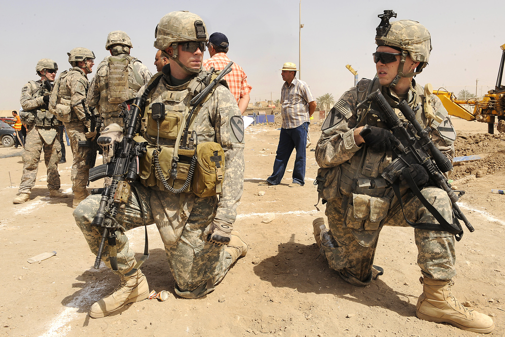 U.S. Army 1st Lt. Joshua Vandegriff, left, and Pfc. Joshua Cahoon have a conversation while attending a groundbreaking ceremony for Freedom Field, which is being built near Joint Security Station Ur in Baghdad, June 23, 2009. Vandegriff and Cahoon are assigned to the 1st Cavalry Division's 2nd Battalion, 5th Cavalry Regiment, 1st Brigade Combat Team.